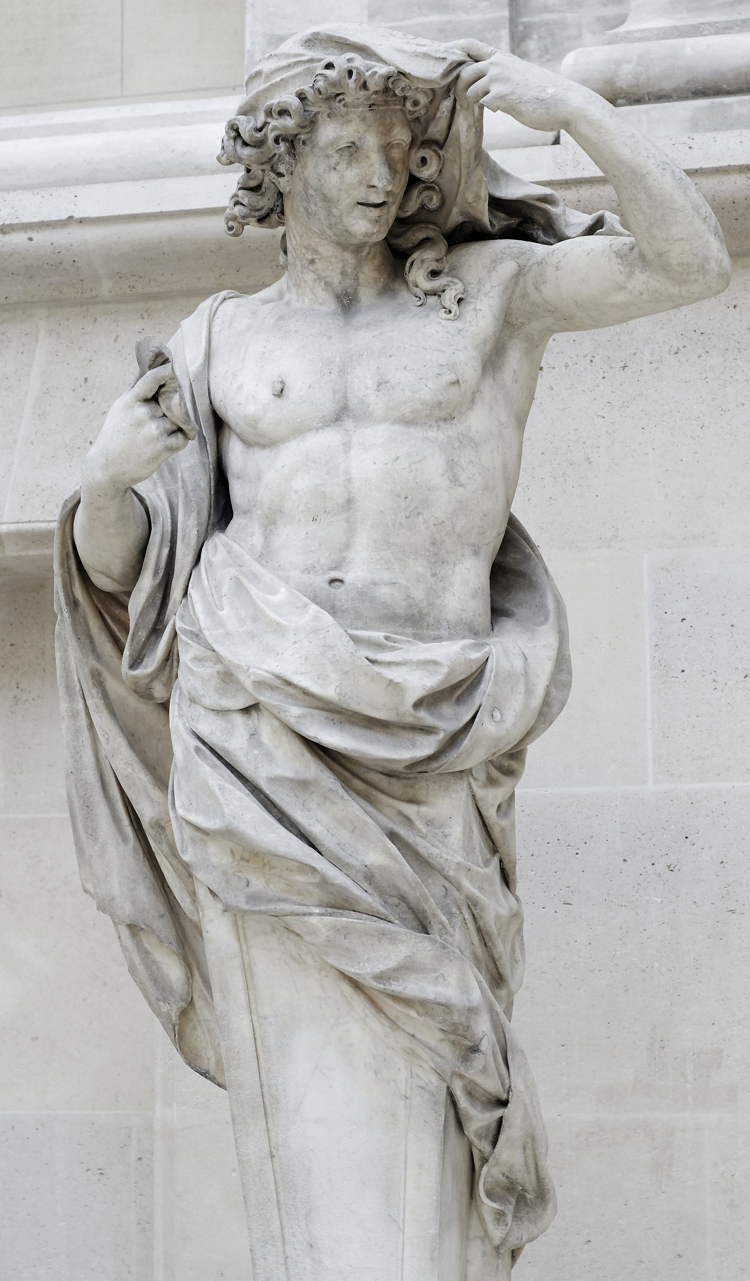 Vertumnus holding the mask of an old woman in his right hand, marble.